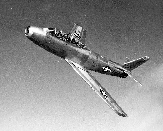 North American TF-86F Sabre in flight.